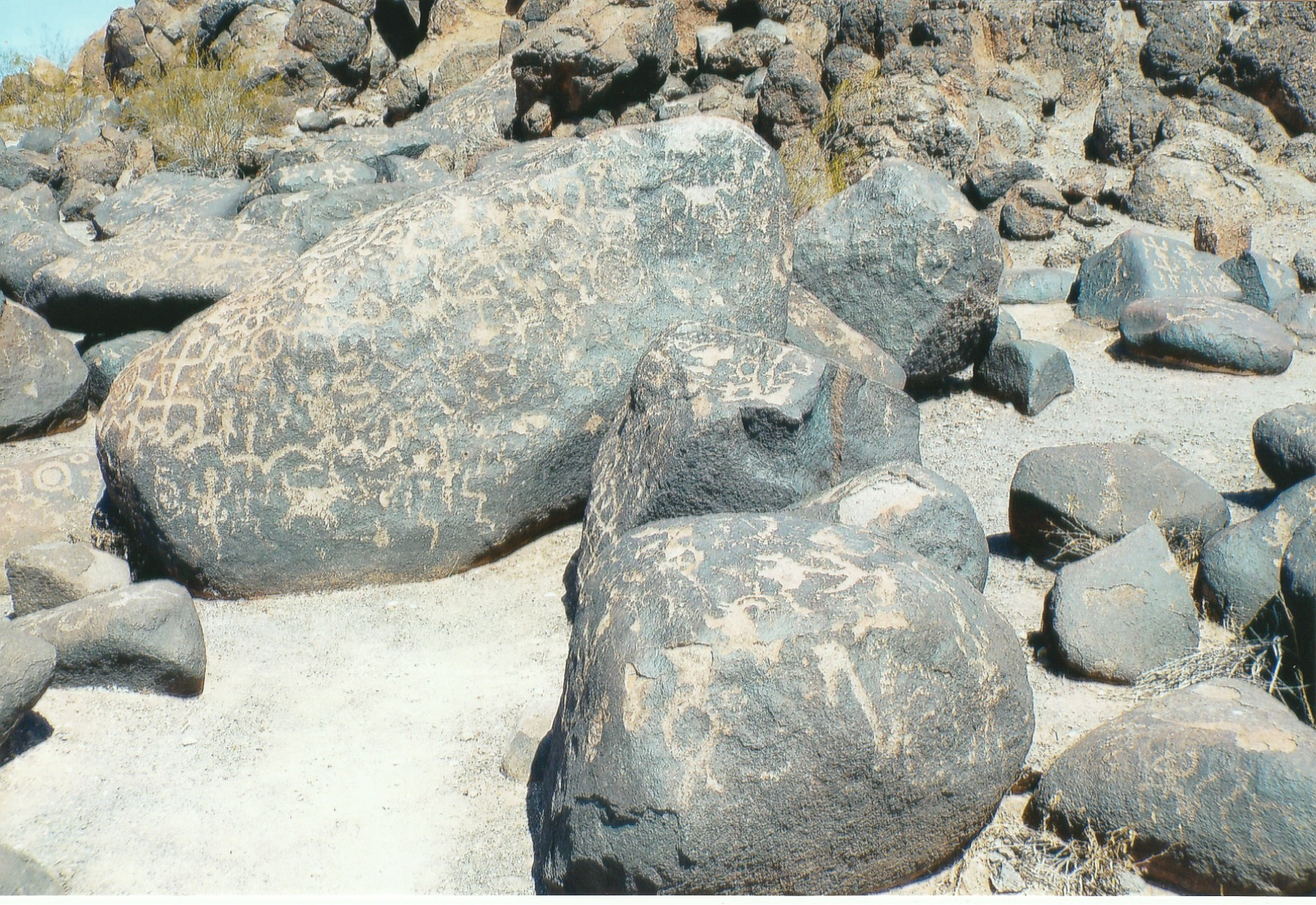 Painted Rock site in Gila Bend Arizona